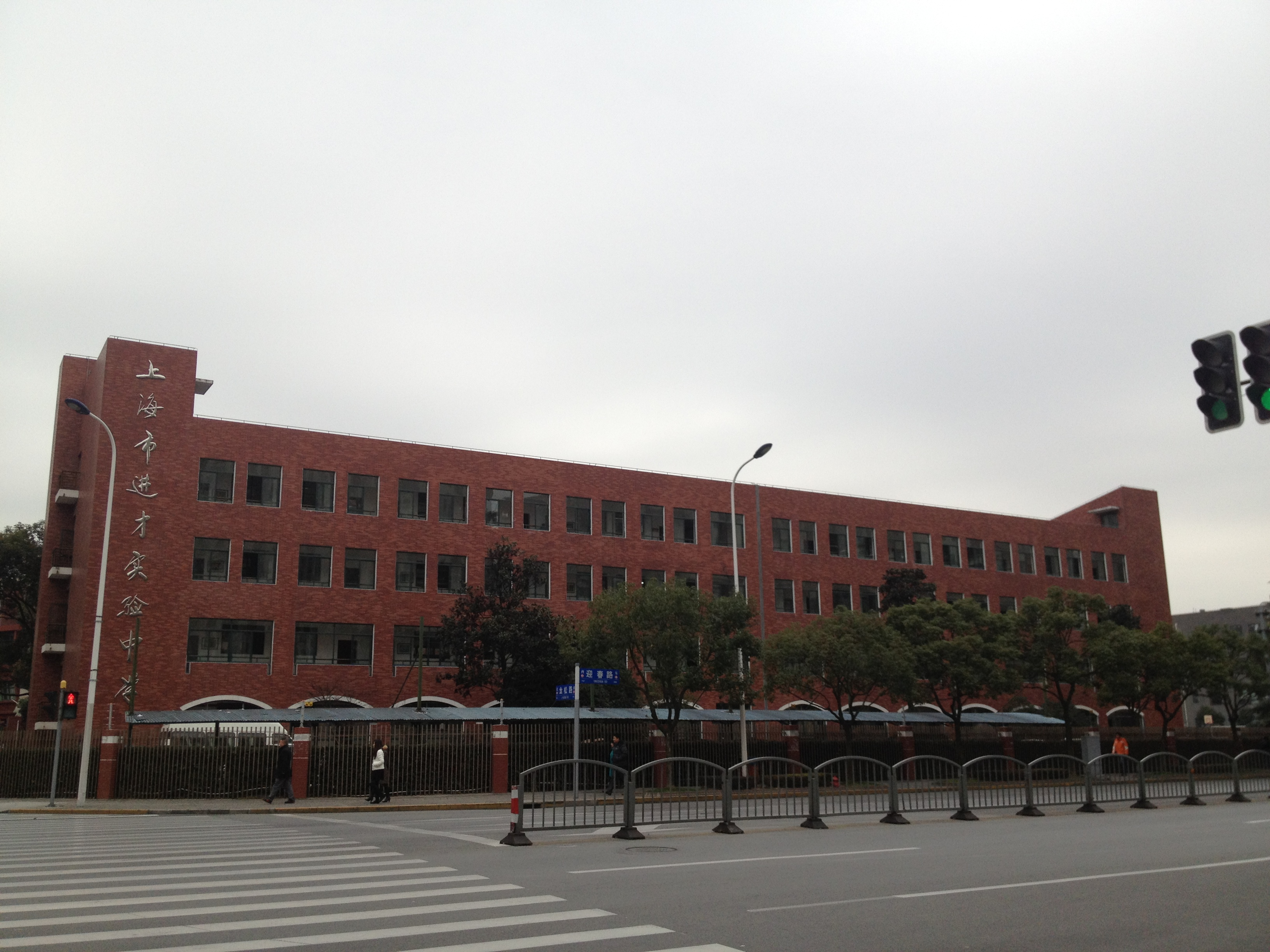 Shanghai Jincai Experimental Junior Middle School (3)